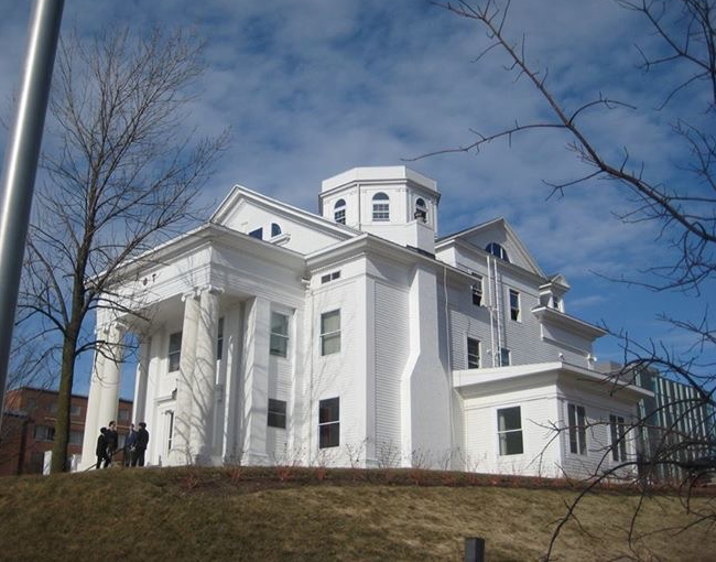 PSI Upsilion Pi Chapter House Circa August 2016